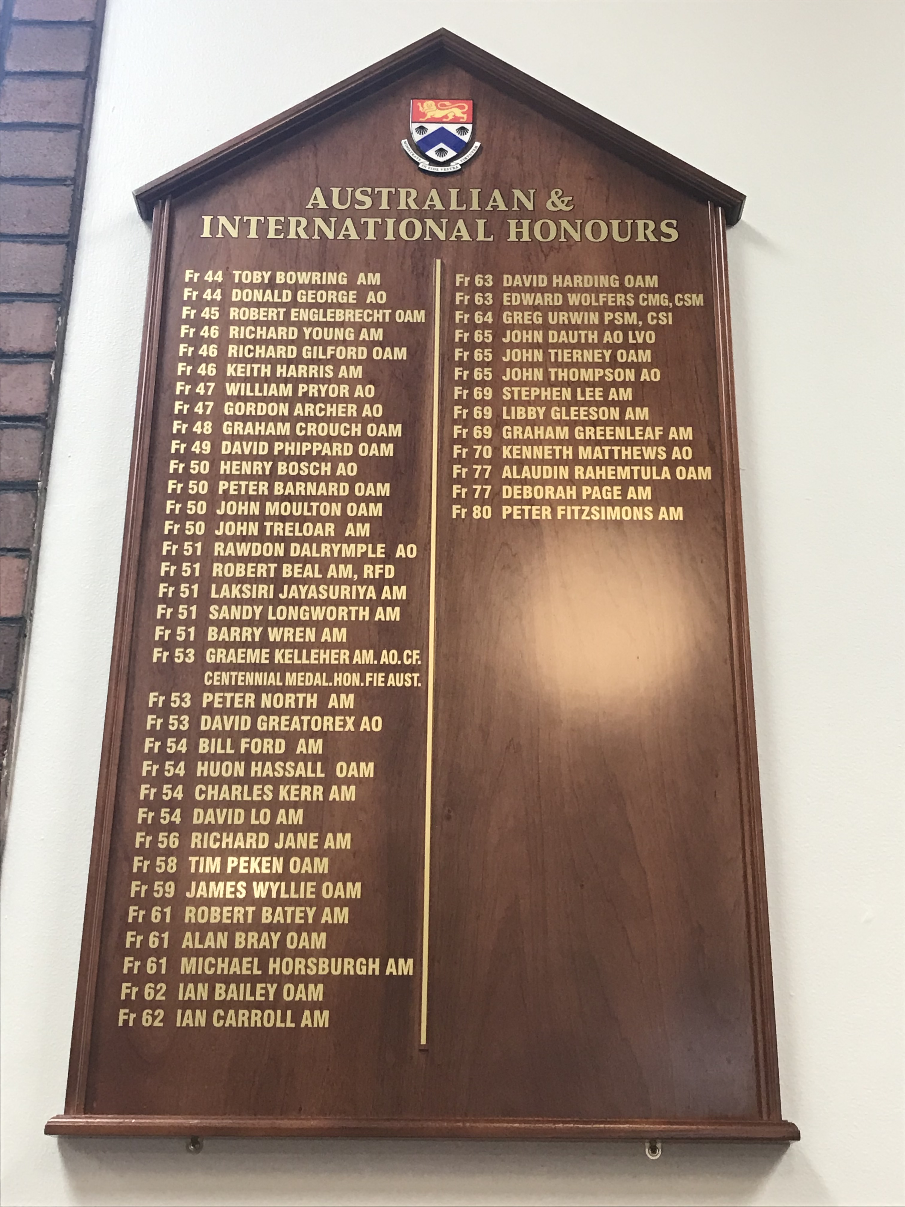 One of several honours boards at Wesley College, University of Sydney